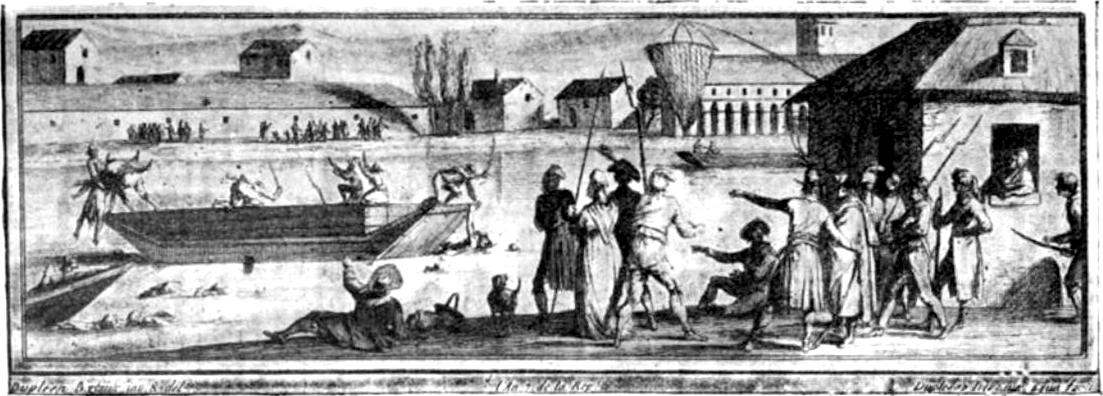 The Drownings at Savenay during the French Revolution